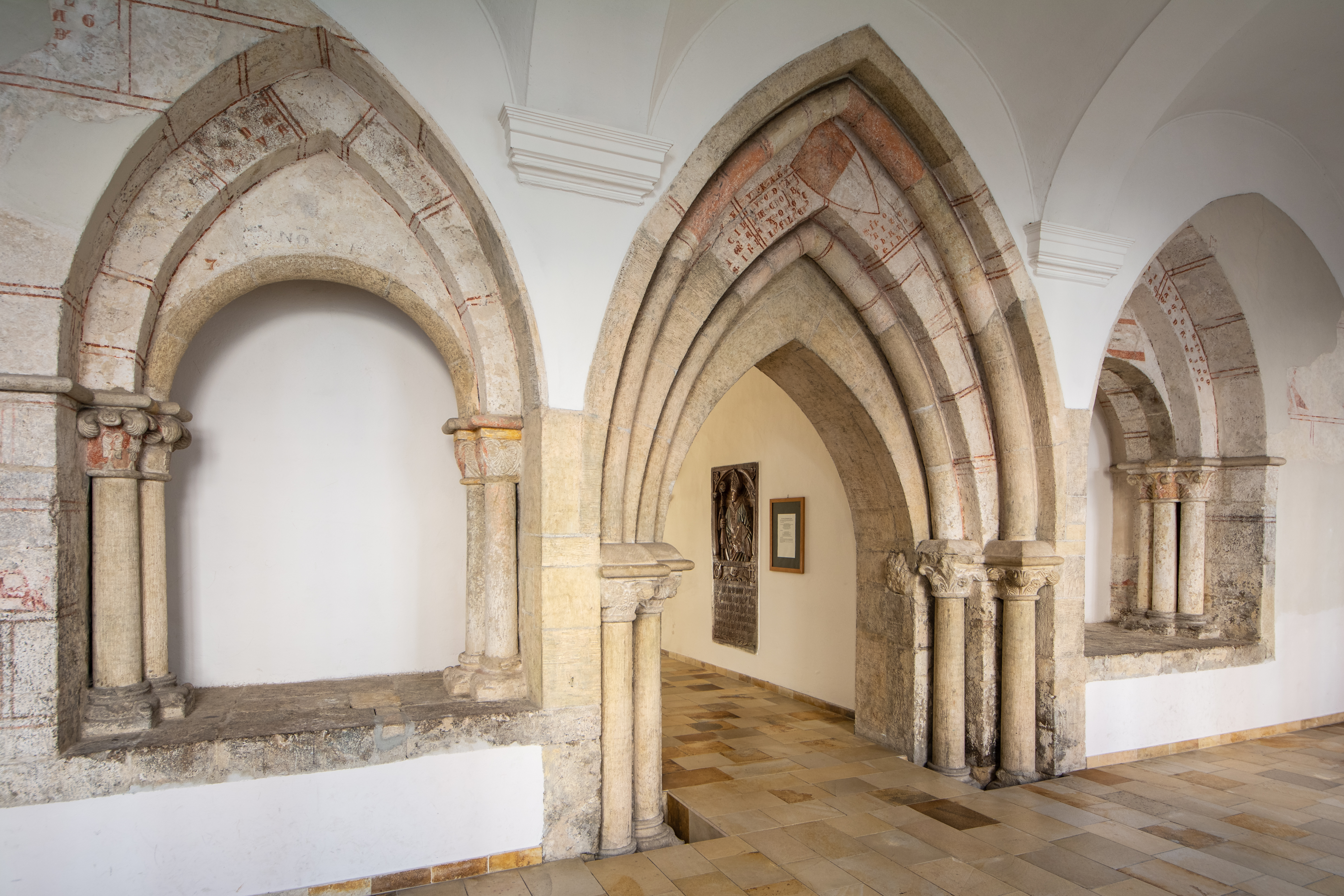 Remains of the gothic cloister of Wilhering Abbey, Upper Austria